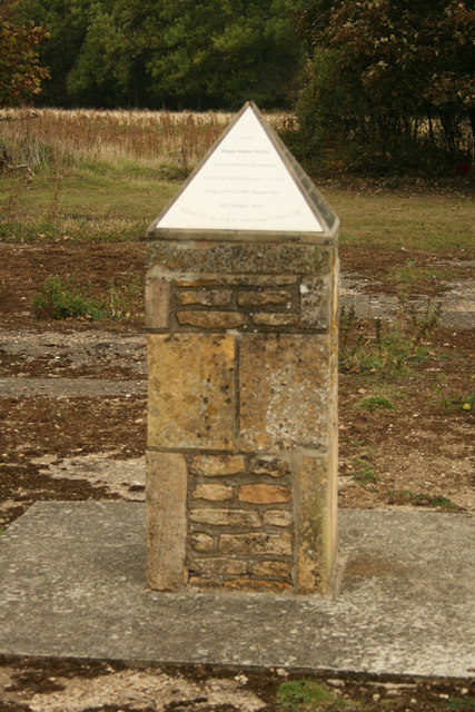 Glenn Miller Memorial at former RAF Kings Cliffe, England, site of his last hangar concert.